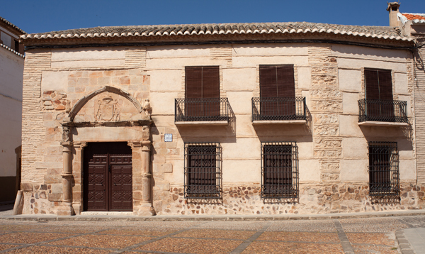 Calle de Nuestra Señora de las Nieves; Almagro, Castilla-La Mancha, Ciudad Real, Spain; ; ref: PM_090830_E_Almagro; Casa del Capellan de las Bernardas; Photographer: Paul M.R. Maeyaert; © Paul M.R. Maeyaert; ; Cultural heritage; Europeana; Europe/Spain/Almagro